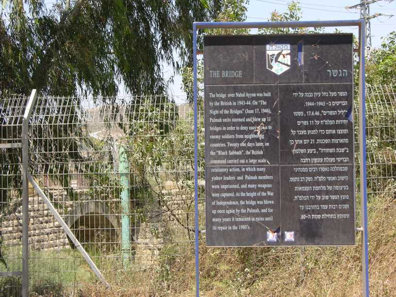 The bridge over Nahal Ayyun (on the left) was built by the British in 1943-44. On "The Night of the Bridges" (June 17, 1946), Palmah units stormed and blew up 11 bridges in order to deny easy access to enemy soldiers from neighboring countries. Twenty one days later, on the "Black Sabbath", the British command carried out a large scale retaliatory action, in which many yishuv leaders and Palmah members were imprisoned, and many weapons were captured. At the height of the War of Independence, the bridge was blown up once again by the Palmah, and for many years it remained in ruins until its repair in the 1980s.